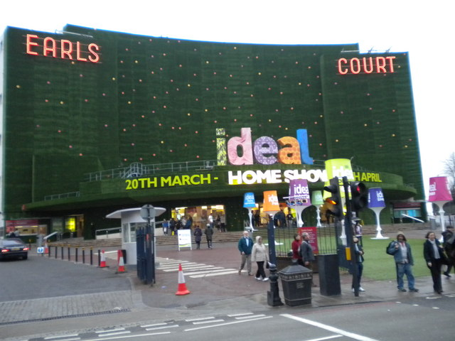 Ideal Home Show, Earl's Court Exhibition Centre, Warwick Road SW5, near to Kensington, Kensington And Chelsea, Great Britain.